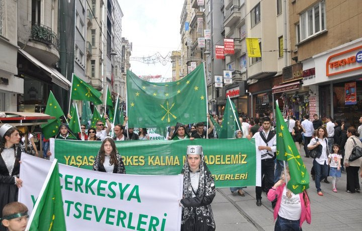 Circassians commemorate the banishment of the Circassians from Russia in Taksim, İstanbul